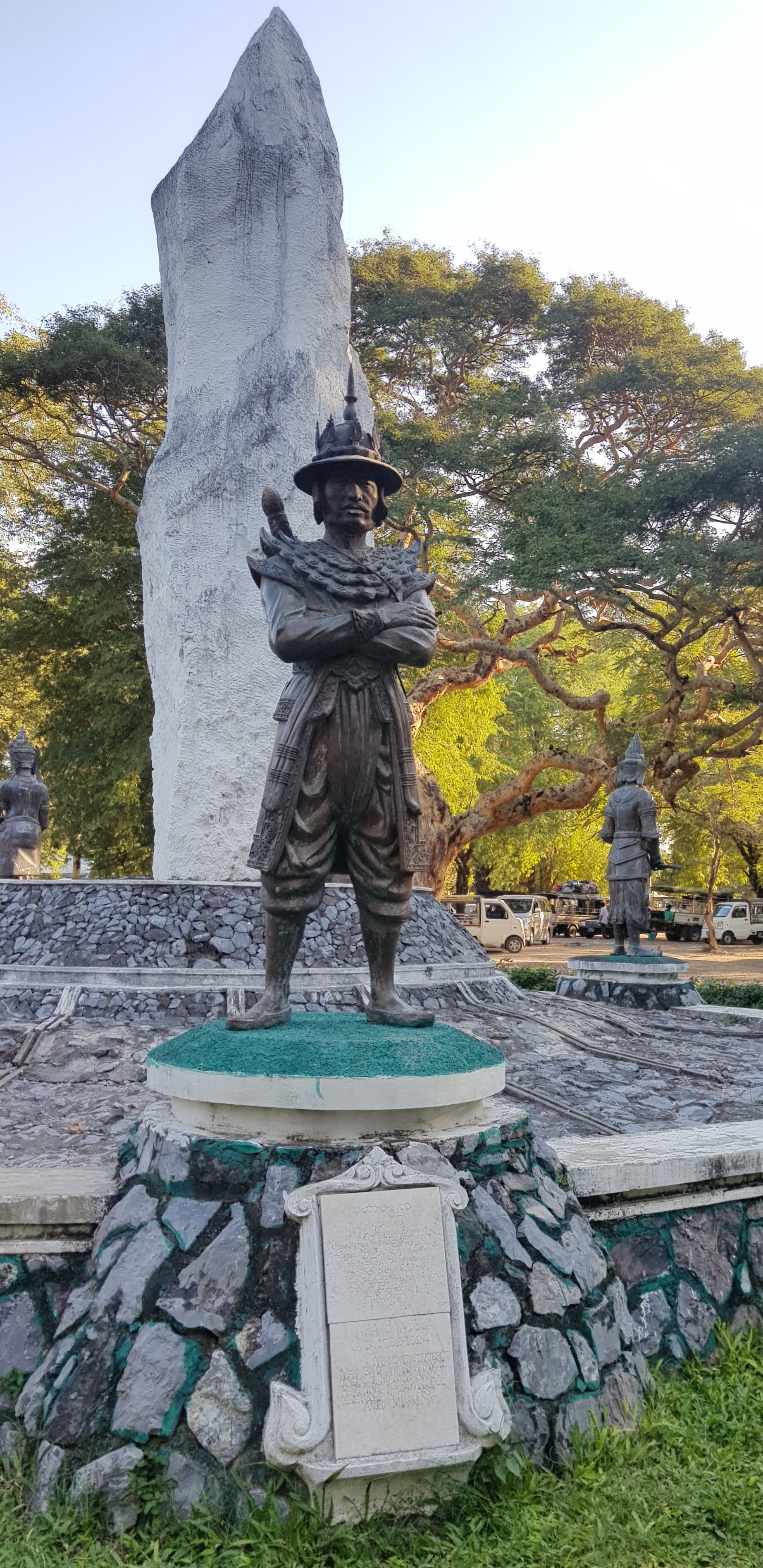 The statute of Maha Bandula in Mandalay Palace.